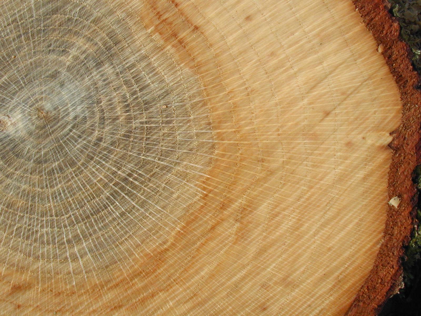 Wood from Quercus robur: On the left you see the grey hardwood and on the right you see the seven growth rings of sapwood.